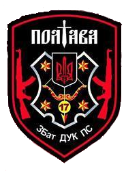 Sleeve patch of the 17th Replacement Battalion for the Ukrainian Volunteer Corps (UVC), color